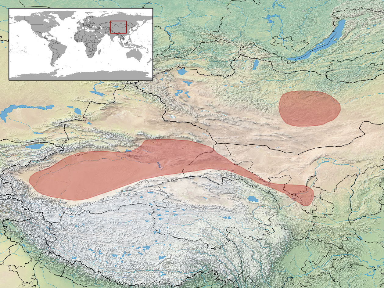 geographic distribution of Phrynocephalus versicolor (Native: China (Gansu, Nei Mongol, Ningxia, Xinjiang); Mongolia)